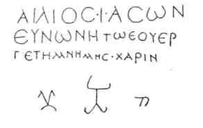 Ancient Greek inscription from Azerbaijan, found in 1902 in the village of Böyük Dəhnə. Translation: "Aelios Iason to benefactor Eunon as a keepsake".